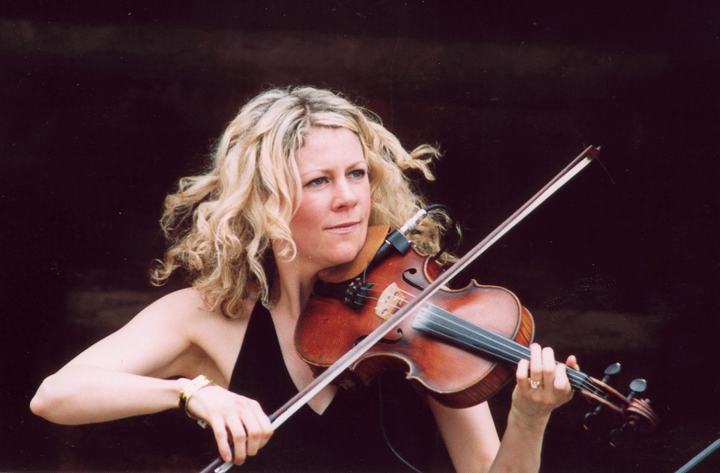 Natalie MacMaster at MerleFest, 2004. Photo by Forrest L. Smith, III.